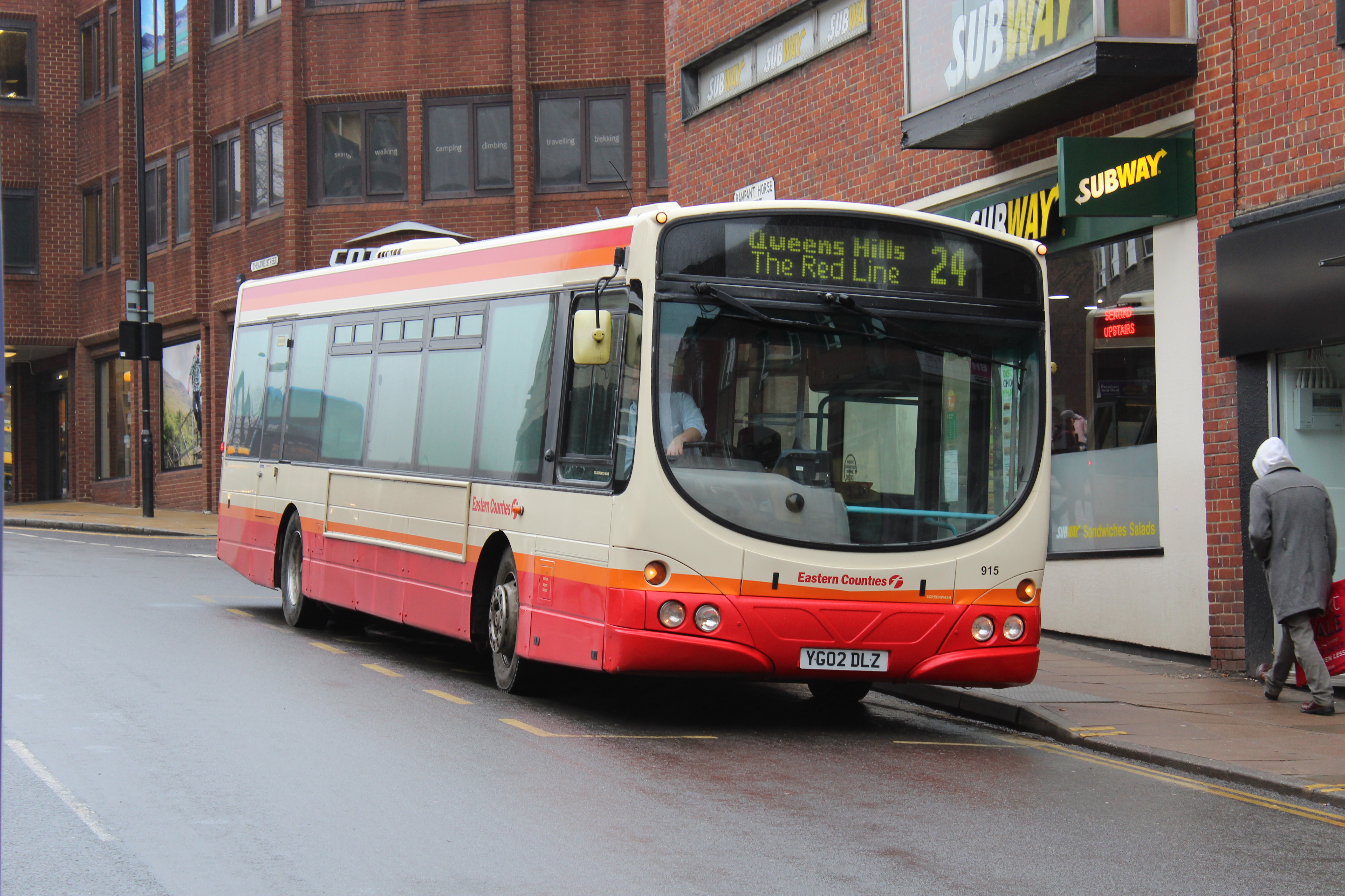 One of Network Norwich's two Eastern Counties retro-liveried Volvo B7L/Wright Eclipse Metros.